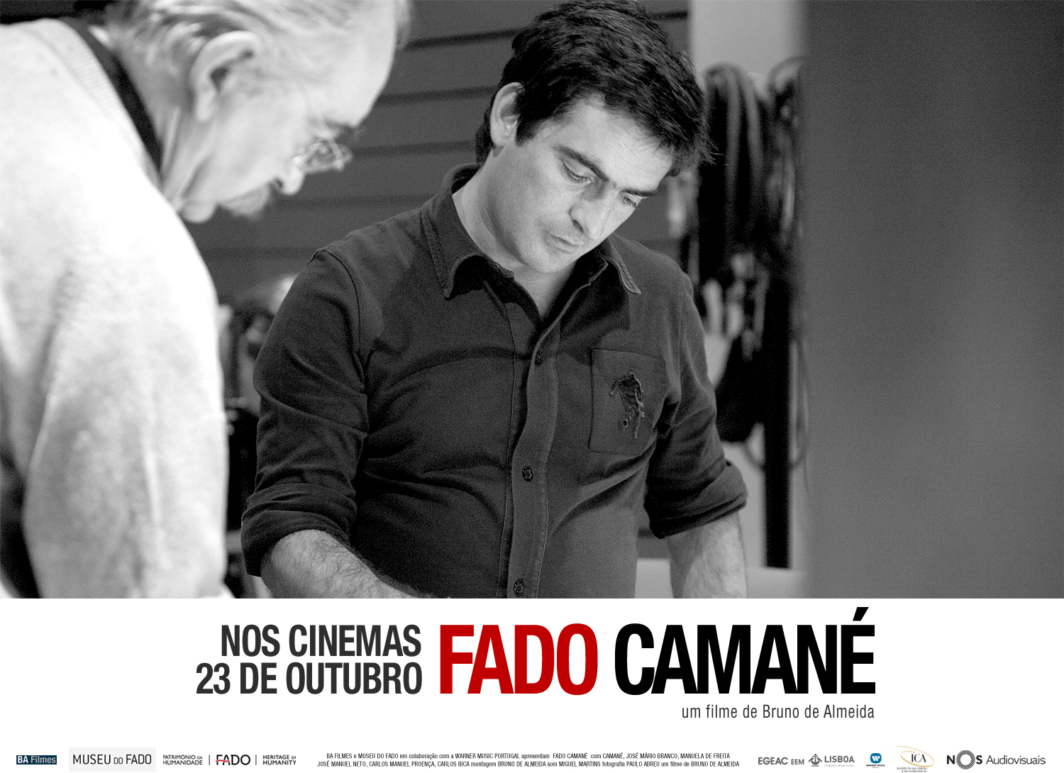 Promotional banner for the film FADO CAMANÉ